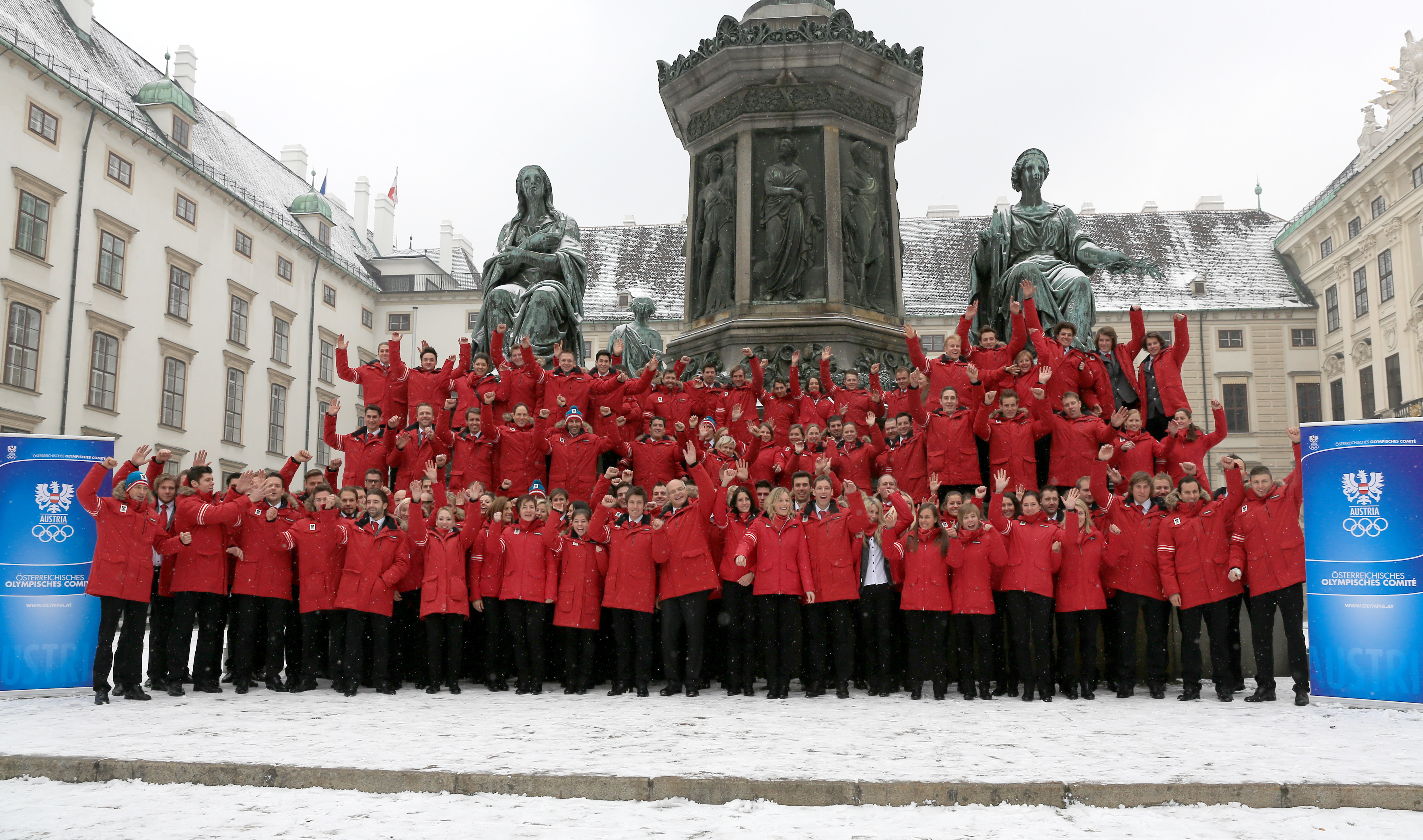 The Austrian team for the 2014 Winter Olympics; group picture taken at Hofburg Palace in Vienna, Austria.